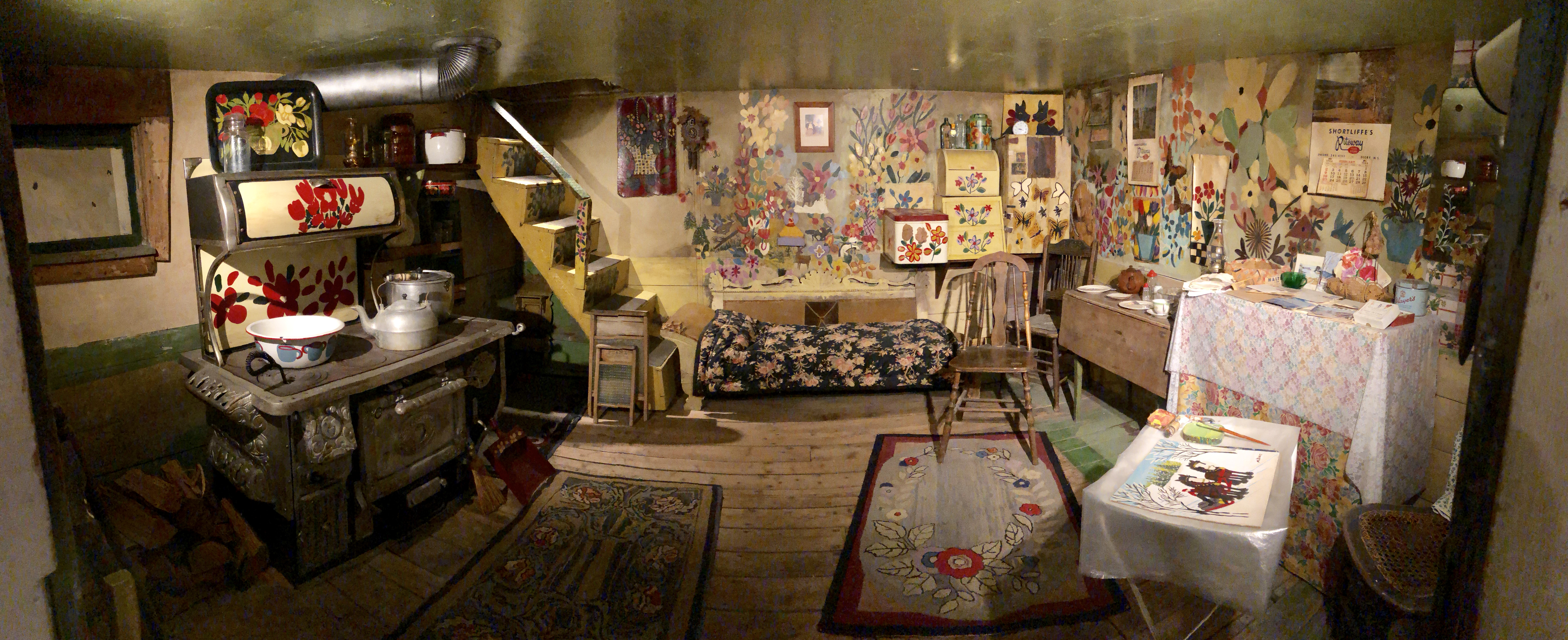 Maud Lewis House Interior Pano